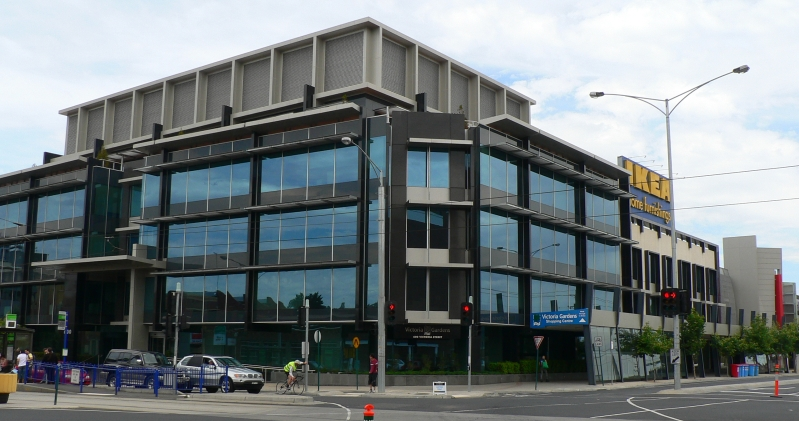 Victoria Gardens Shopping Centre from Victoria Street. Abbotsford, Victoria.